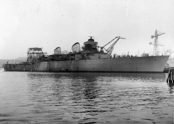 The Swedish cruiser HMS Tre Kronor during construction in Gothenburg.